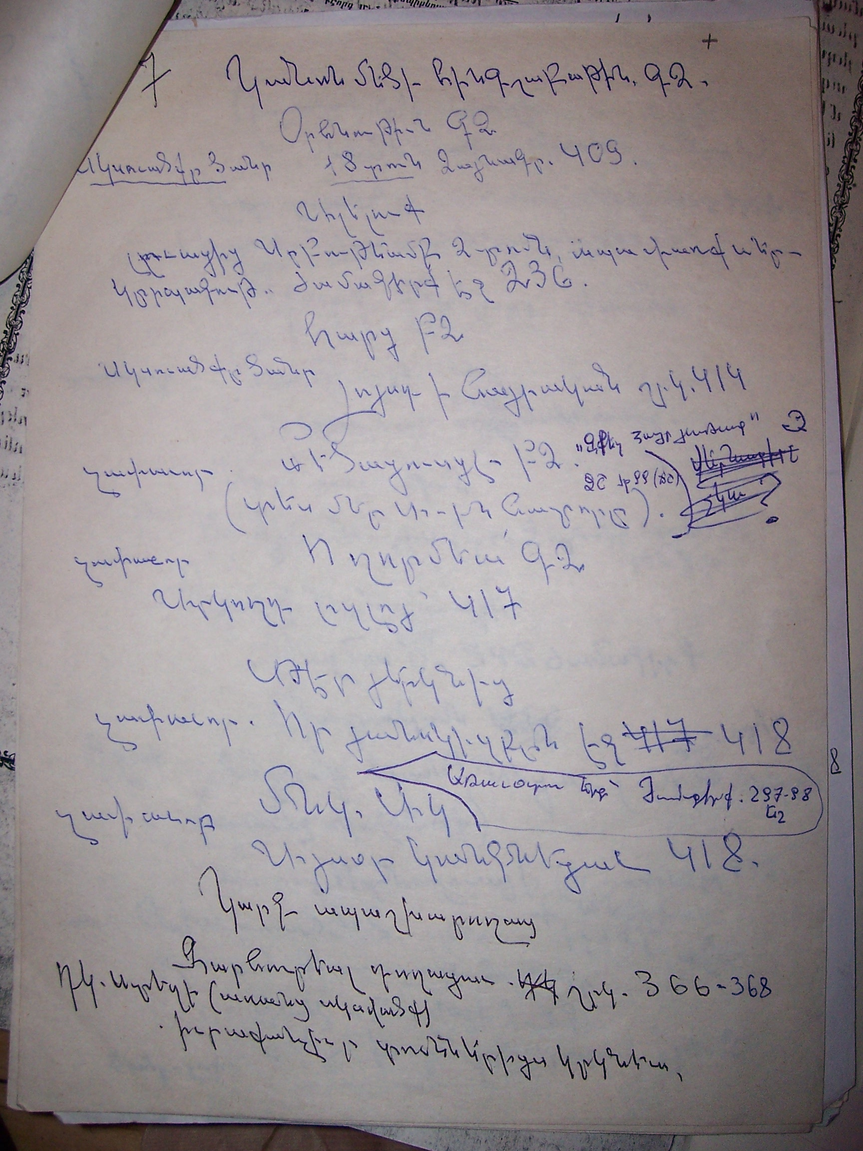 palyan handwriting